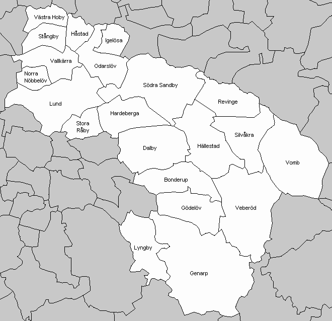 socken in Lund